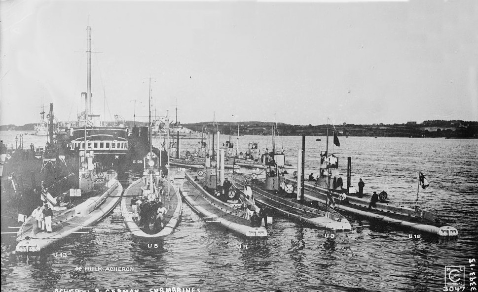 German Imperial Navy submarines at Kiel, Schleswig-Holstein (Germany), before the First World War. The boats are: U 13, U 5, U 11, U 3, and U 16 (first row, l-r); U 9, U 12, U 6, and U ? (second row, l-r). To the left of U 9 are the torpedo boat S 99 and the hulk Acheron. The Acheron had been the frigate SMS Moltke (I), commissioned in 1878. After decommissioning she was renamed on 28 October 1911 and used as a barracks ship for submarine crews at Kiel. She was finally scrapped in 1920. A battlecruiser or battleship is visible in the background.